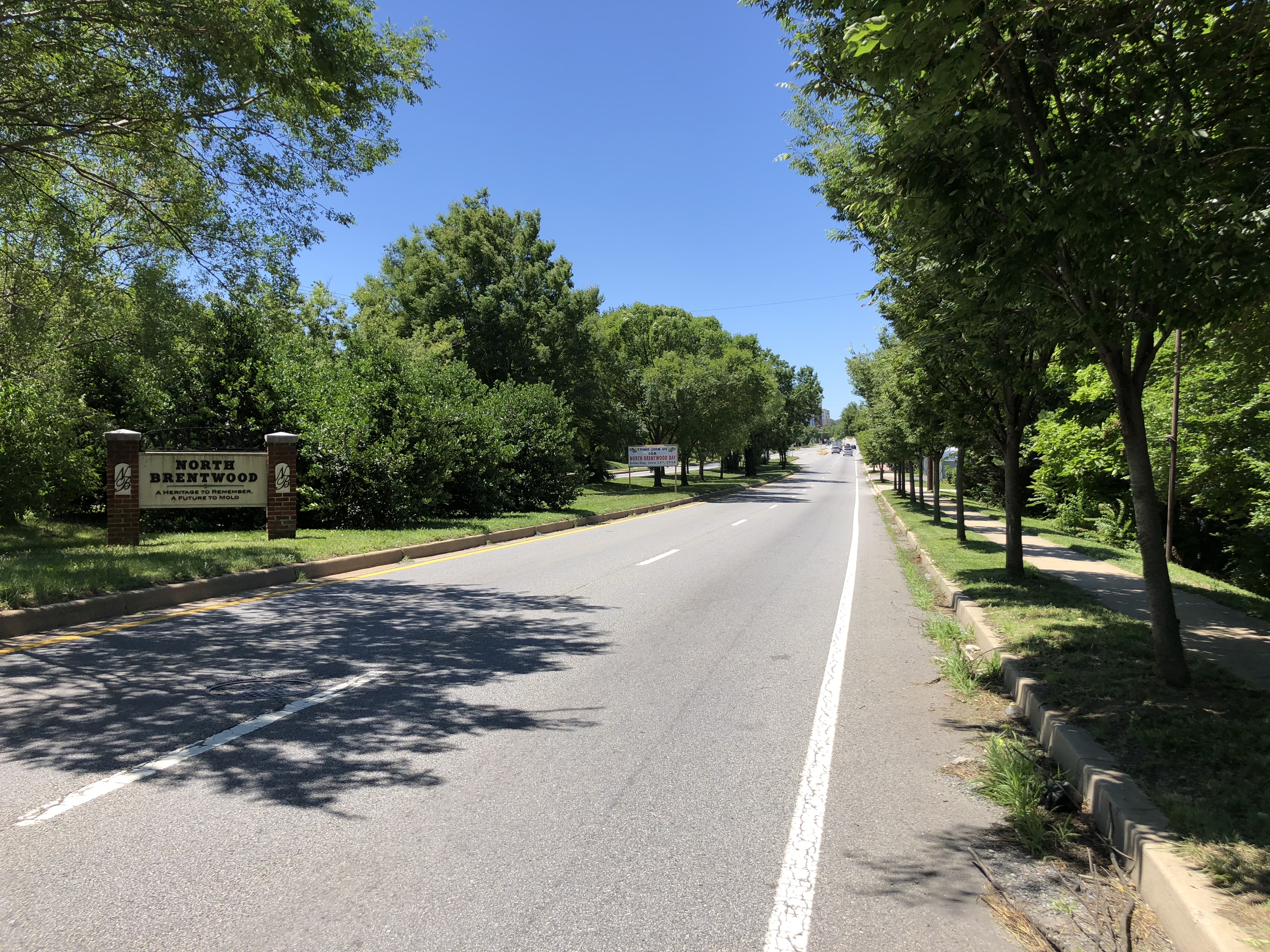 View south along U.S. Route 1 (Rhode Island Avenue) just south of the Northwest Branch of the Anacostia River in North Brentwood, Prince George's County, Maryland